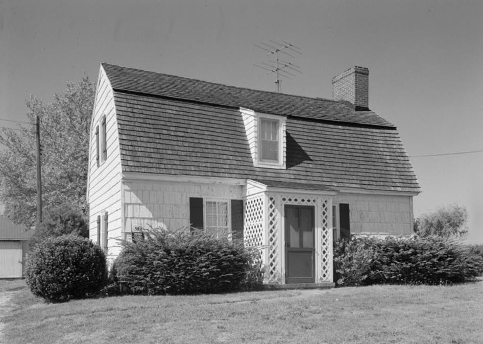 Thomas Maull House, 542 Pilot Town Road, Lewes (Sussex County, Delaware) cropped This file comes from the Historic American Buildings Survey (HABS), Historic American Engineering Record (HAER) or Historic American Landscapes Survey (HALS). These are programs of the National Park Service established for the purpose of documenting historic places. Records consist of measured drawings, archival photographs, and written reports. When reusing please credit: Library of Congress, Prints & Photographs Division, DEL,3-LEW,4-2 This tag does not indicate the copyright status of the attached work. A normal copyright tag is still required. See Commons:Licensing for more information. English | +/− This work is in the public domain in the United States because it is a work prepared by an officer or employee of the United States Government as part of that person’s official duties under the terms of Title 17, Chapter 1, Section 105 of the US Code. See Copyright. Note: This only applies to original works of the Federal Government and not to the work of any individual U.S. state, territory, commonwealth, county, municipality, or any other subdivision. This template also does not apply to postage stamp designs published by the United States Postal Service since 1978. (See 206.02(b) of Compendium II: Copyright Office Practices). It also does not apply to certain US coins; see The US Mint Terms of Use. This file has been identified as being free of known restrictions under copyright law, including all related and neighboring rights. Object location 38° 46′ 48.93″ N, 75° 9′ 4.26″ W This and other images at their locations on: Google Maps - Google Earth - OpenStreetMap - Proximityrama(Info)